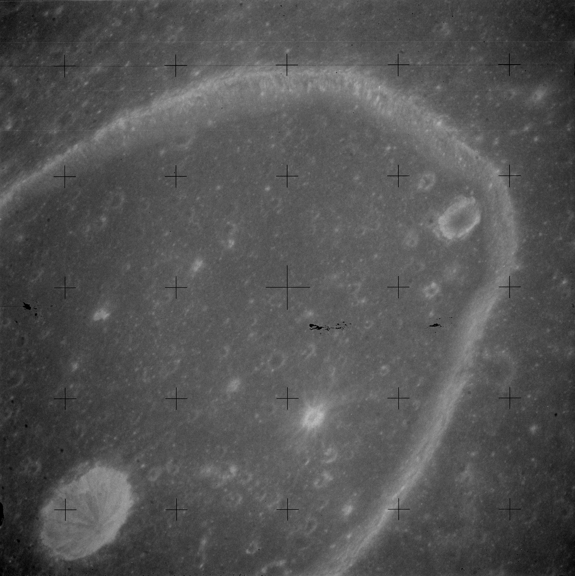 Oblique view of part of Jansen crater, Mare Tranquillitatis, the moon.